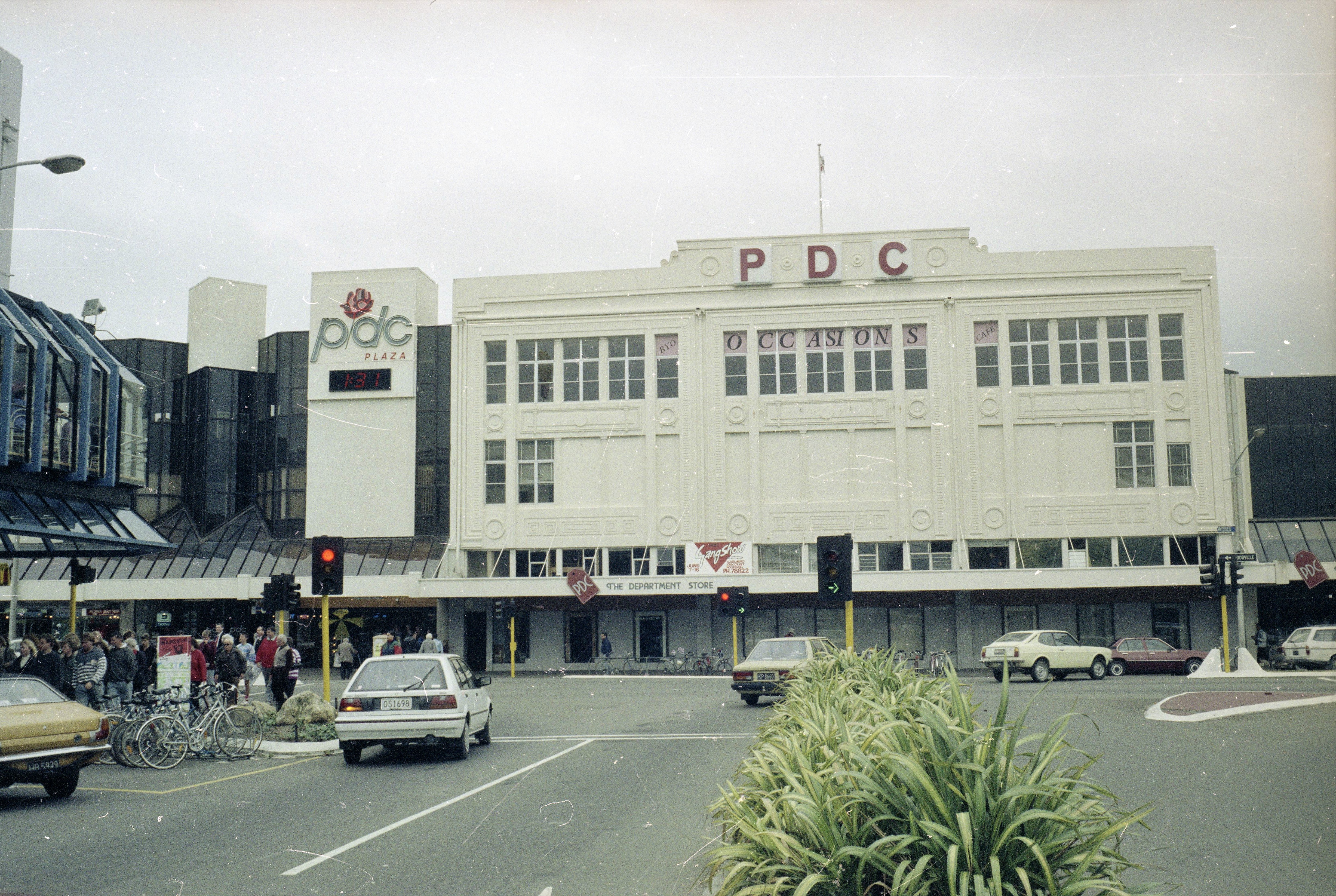 "The building that housed The Premier Drapery Company was built 1929-1930. The store was one of the foremost department stores in Palmerston North. In 1986 the PDC became part of the PDC Plaza. This was sold in 1988, and then later demolished in 1990."